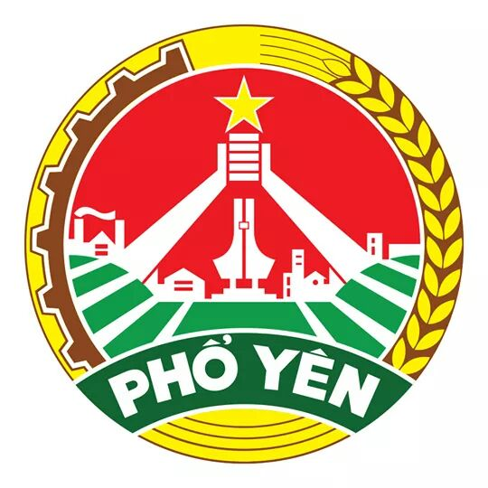 Biểu trưng Phổ Yên